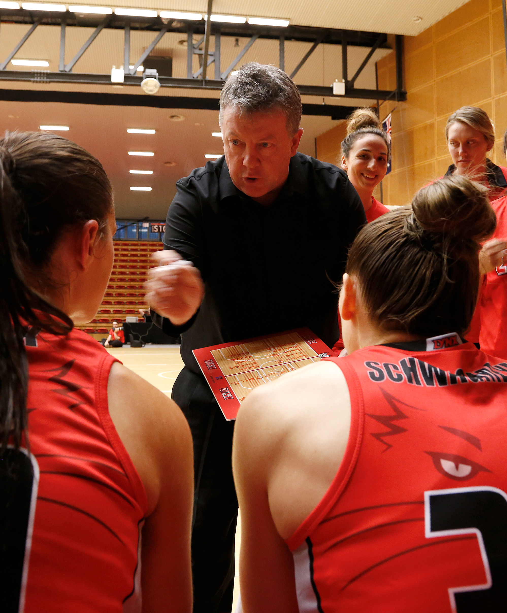 Andy Stewart coaches the Perth Lynx in October 2017.